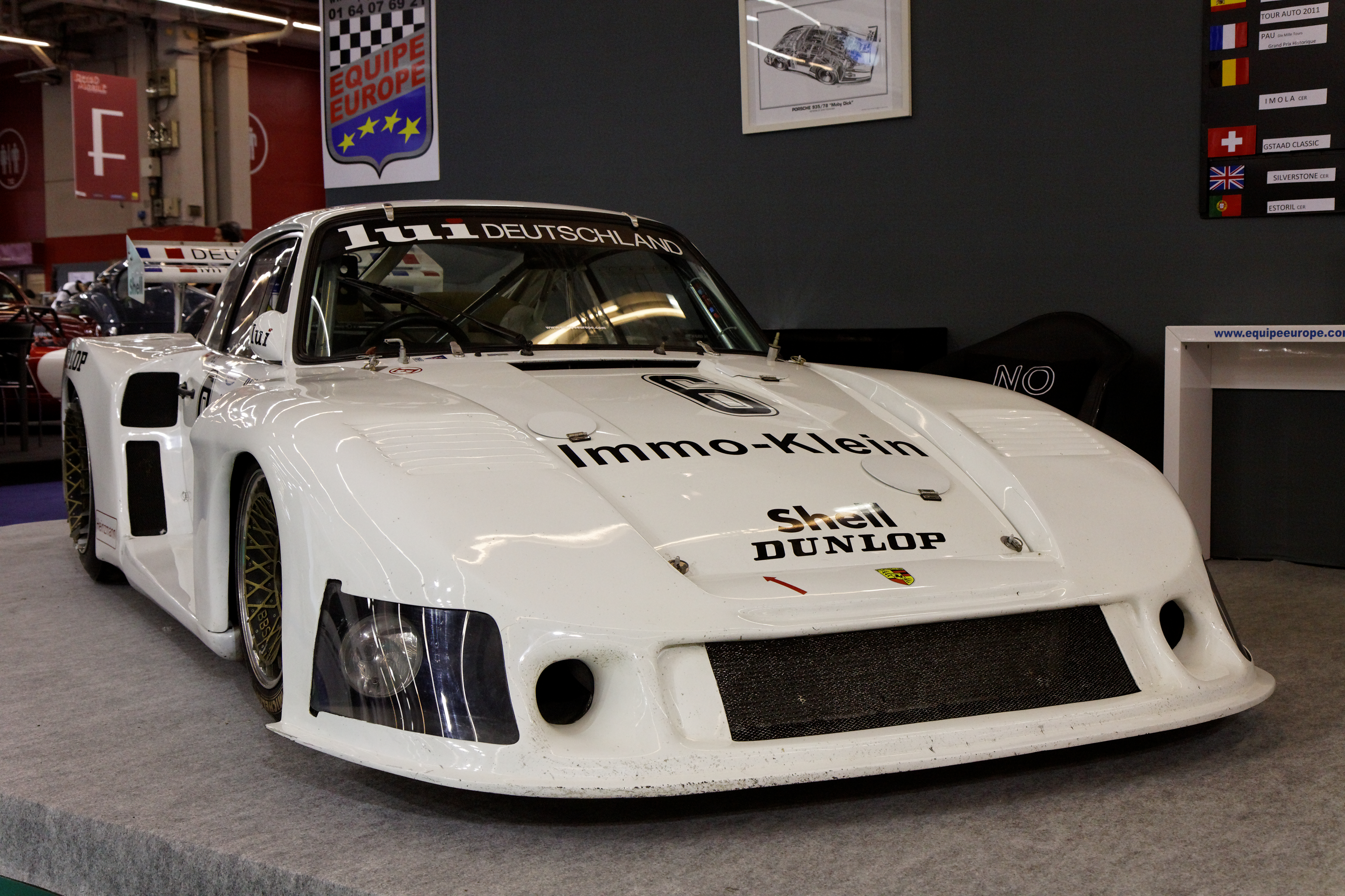 A Porsche 935/78-81 (1981) by Joest Racing at Salon rétromobile 2011 in Paris.